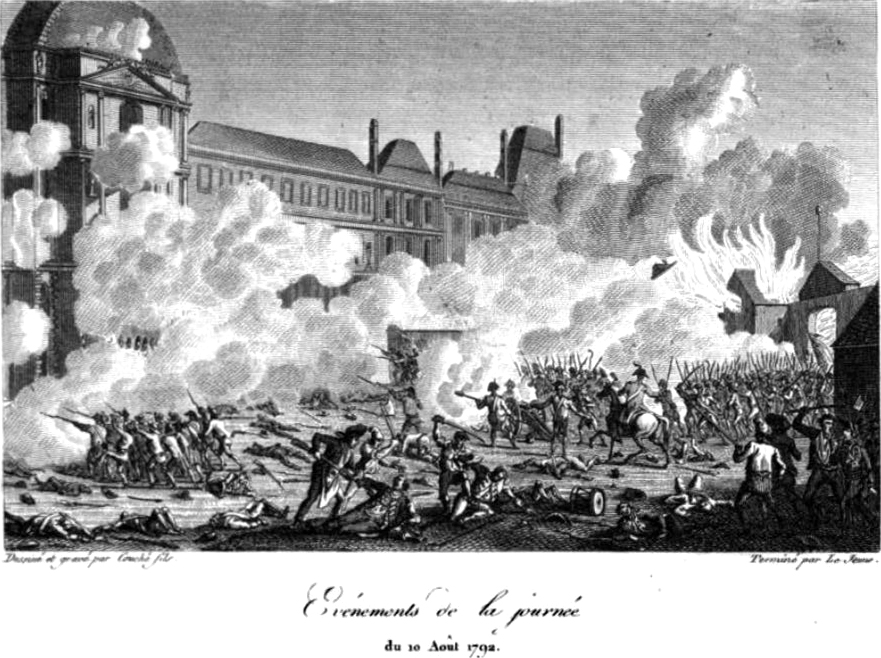 The insurrection of the 10th of August 1792, Palais des Tuileries, Paris.